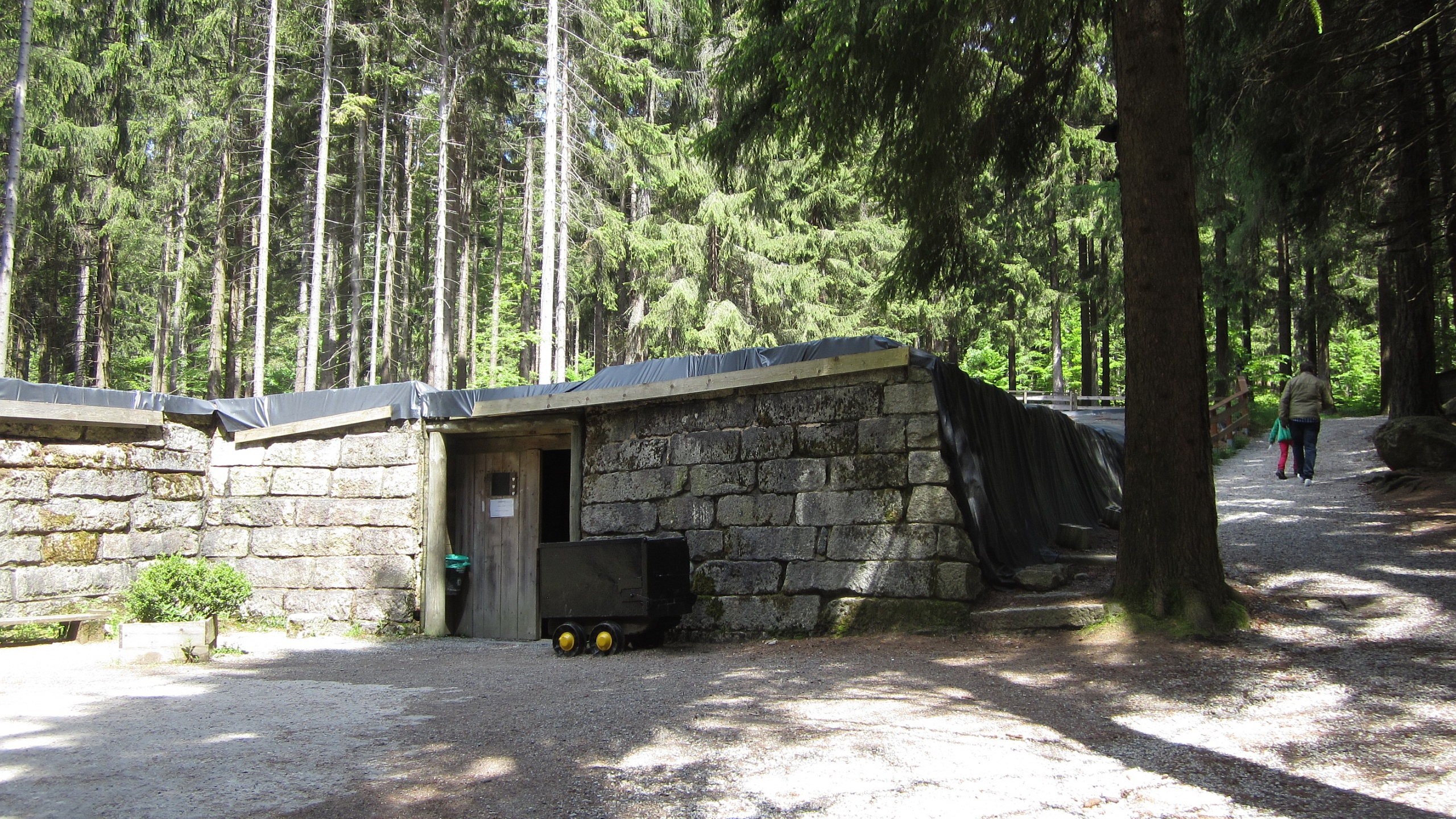 Entrance to show mine Gleißinger Fels in Fichtelberg (Upper Franconia, Germany)